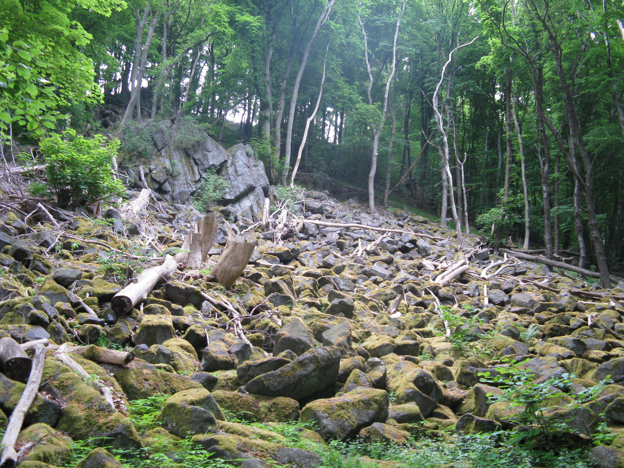 Weiselberg, "Stony Sea", Saarland/Germany